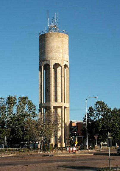 Longreach, Queensland, Australia, River Water Tower, July 2007